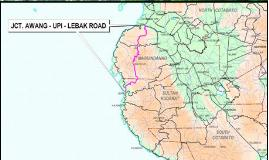 Under-construction plan of Awang-Upi-Lebak Road.